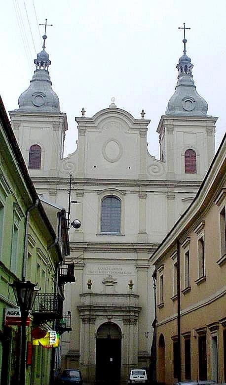 Church saint Francis Xavier